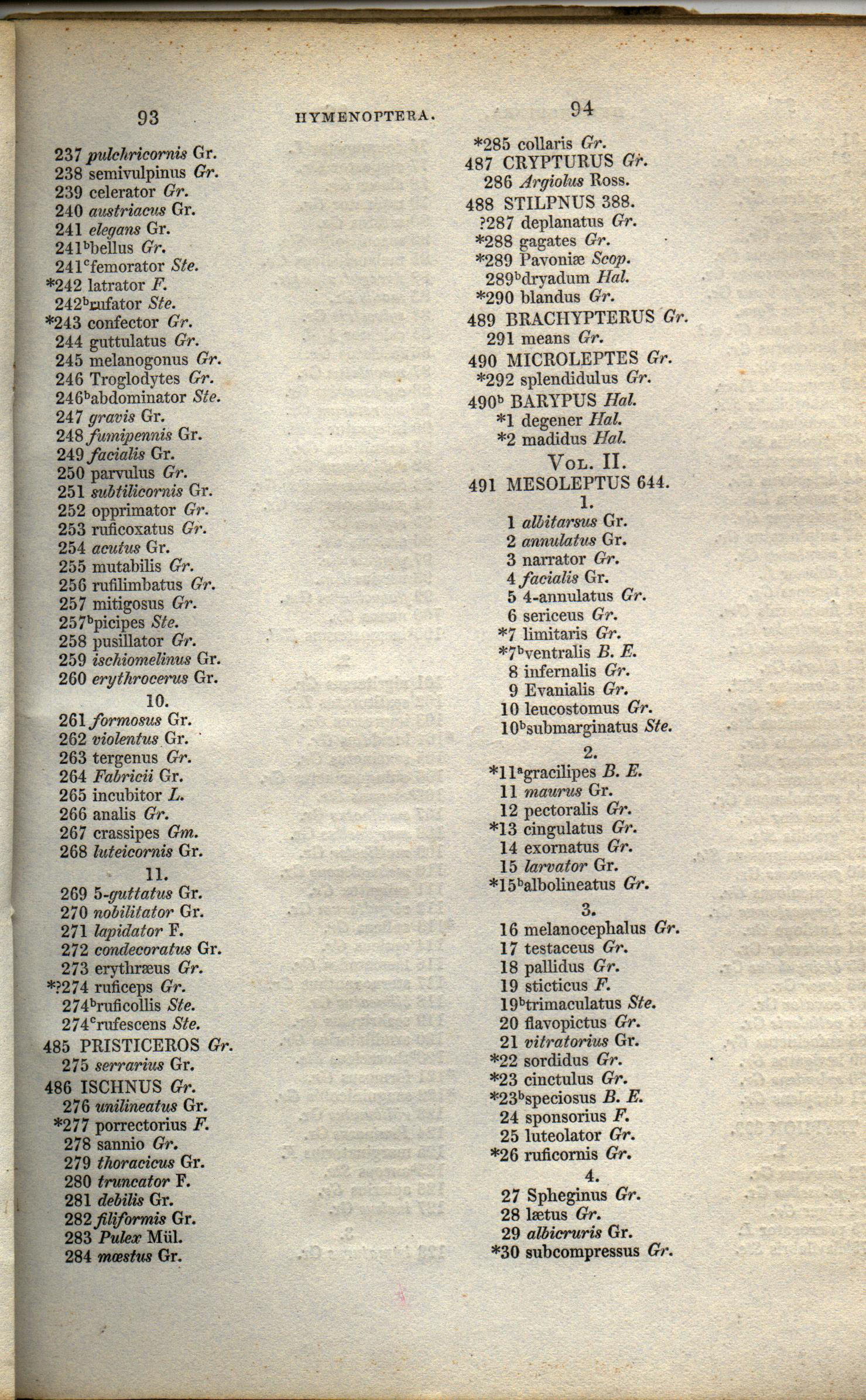 Photo of A. H. Haliday (1806-1870)